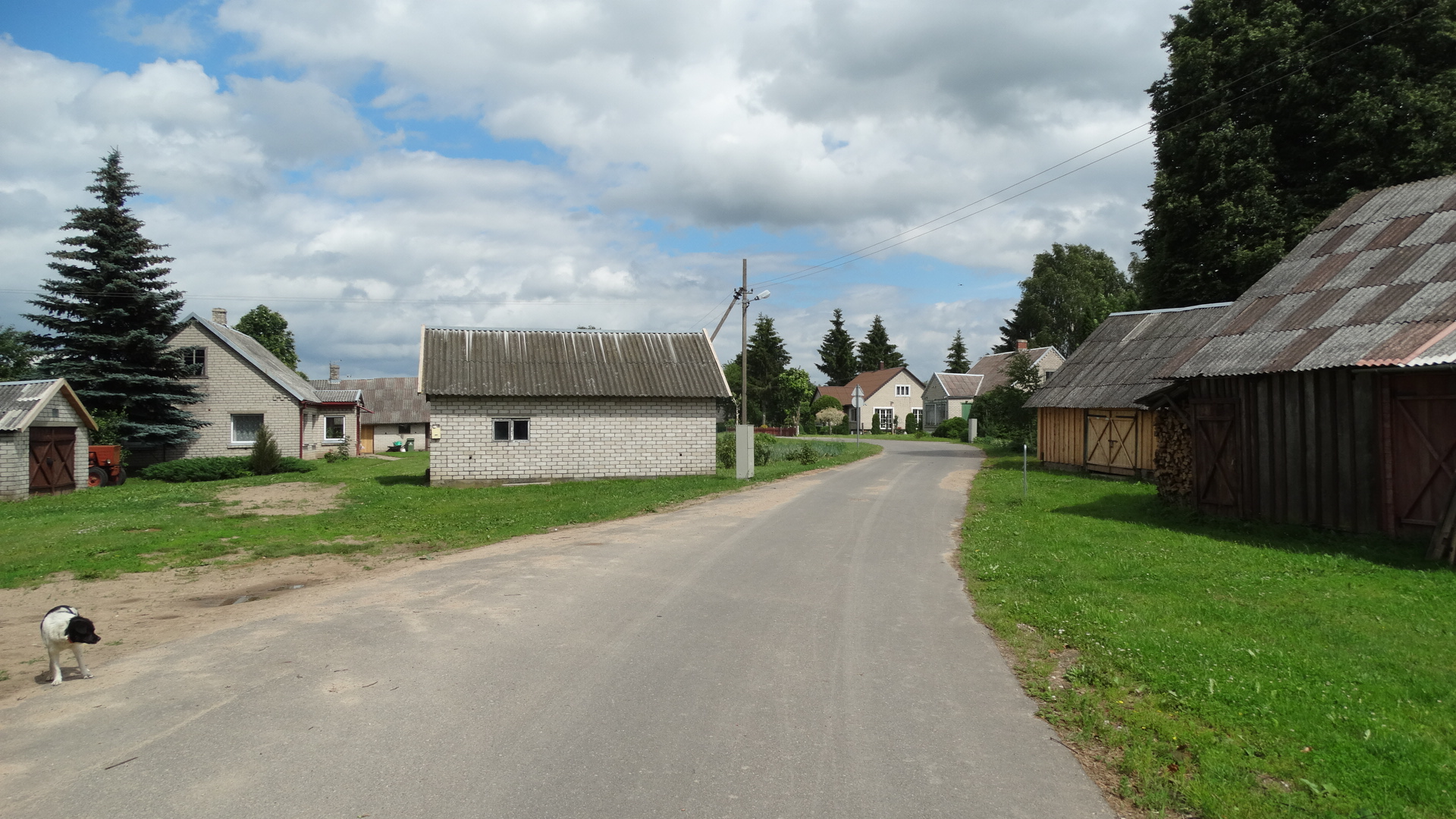 Barskūnai, Širvintos District, Lithuania